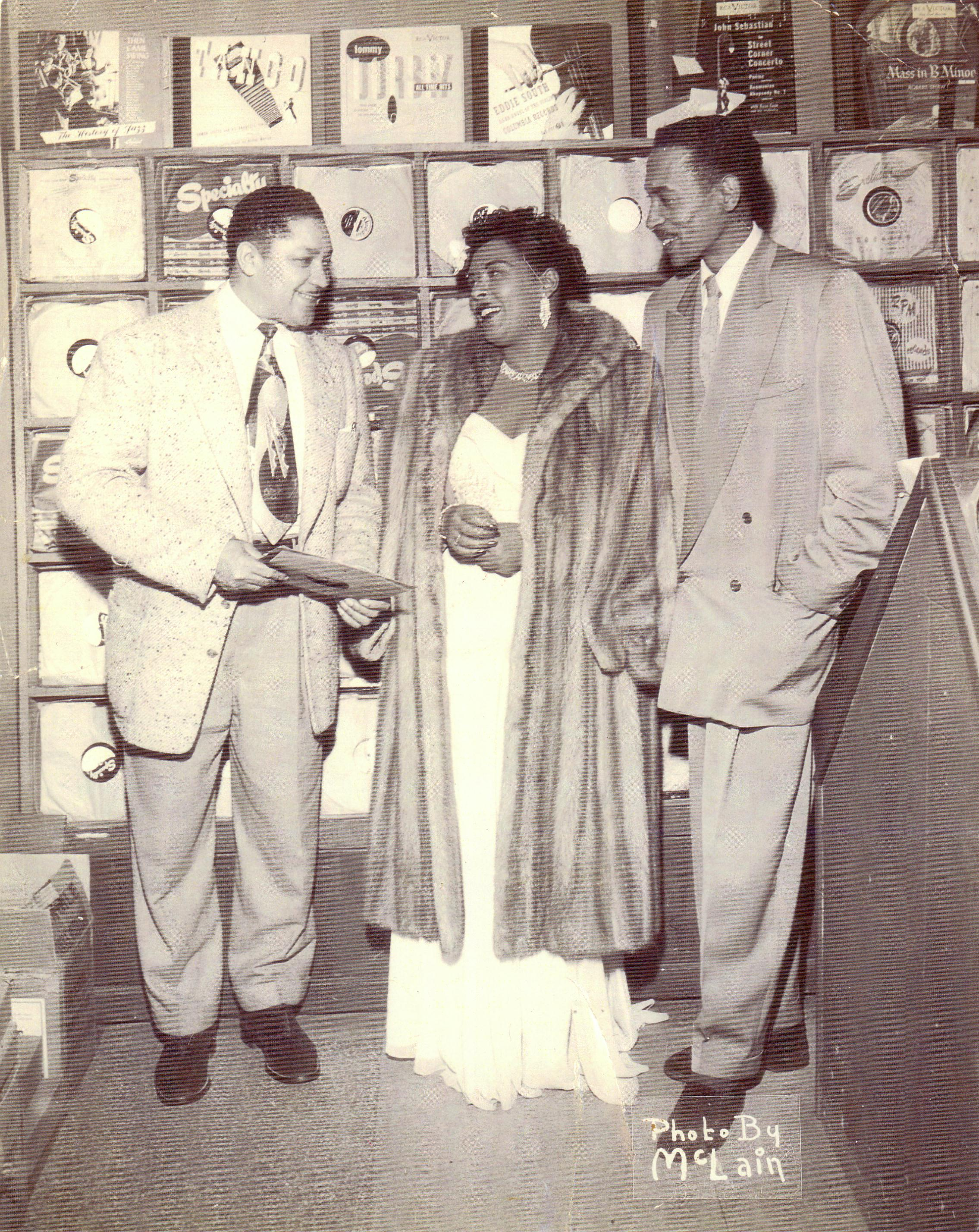 John Dolphin and Billie Holiday at Dolphin's Of Hollywood Record Shop in Los Angeles, CA.